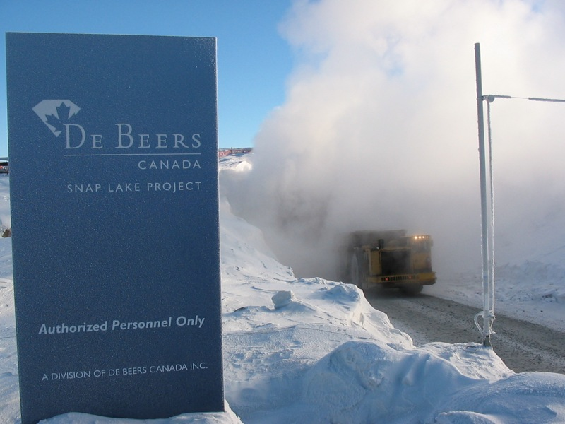 Snap Lake mine in Feb, 2006. The portal with a 40 ton haul truck exiting. February (read: cold)